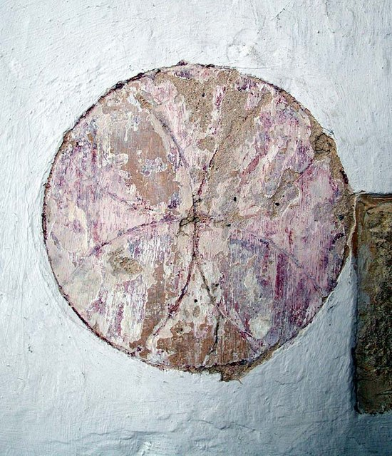 Church of England parish church of St Mary, Charlton on Otmoor, Oxon: one of the consecration crosses